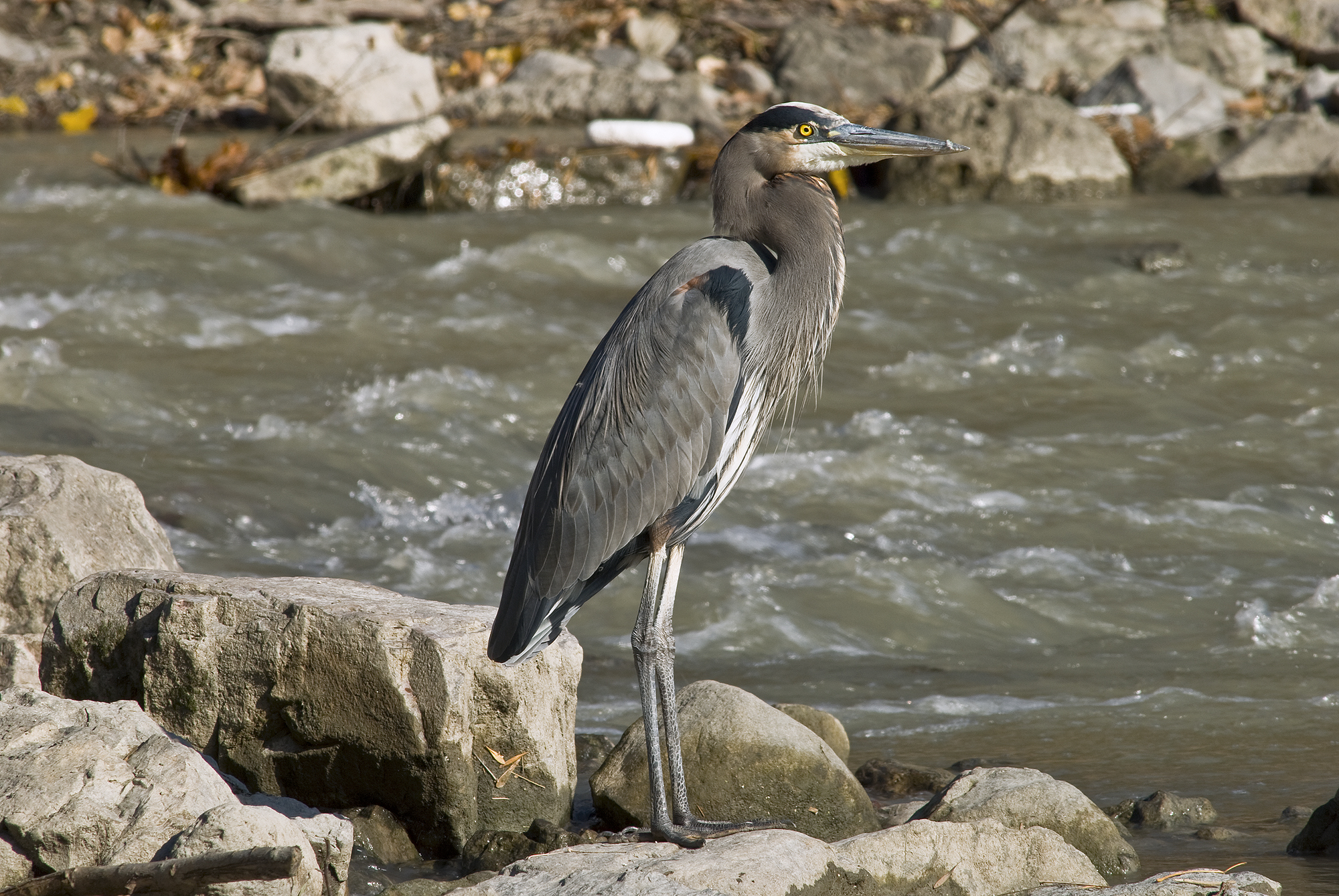 Great Blue Heron (Ardea herodias) side view.